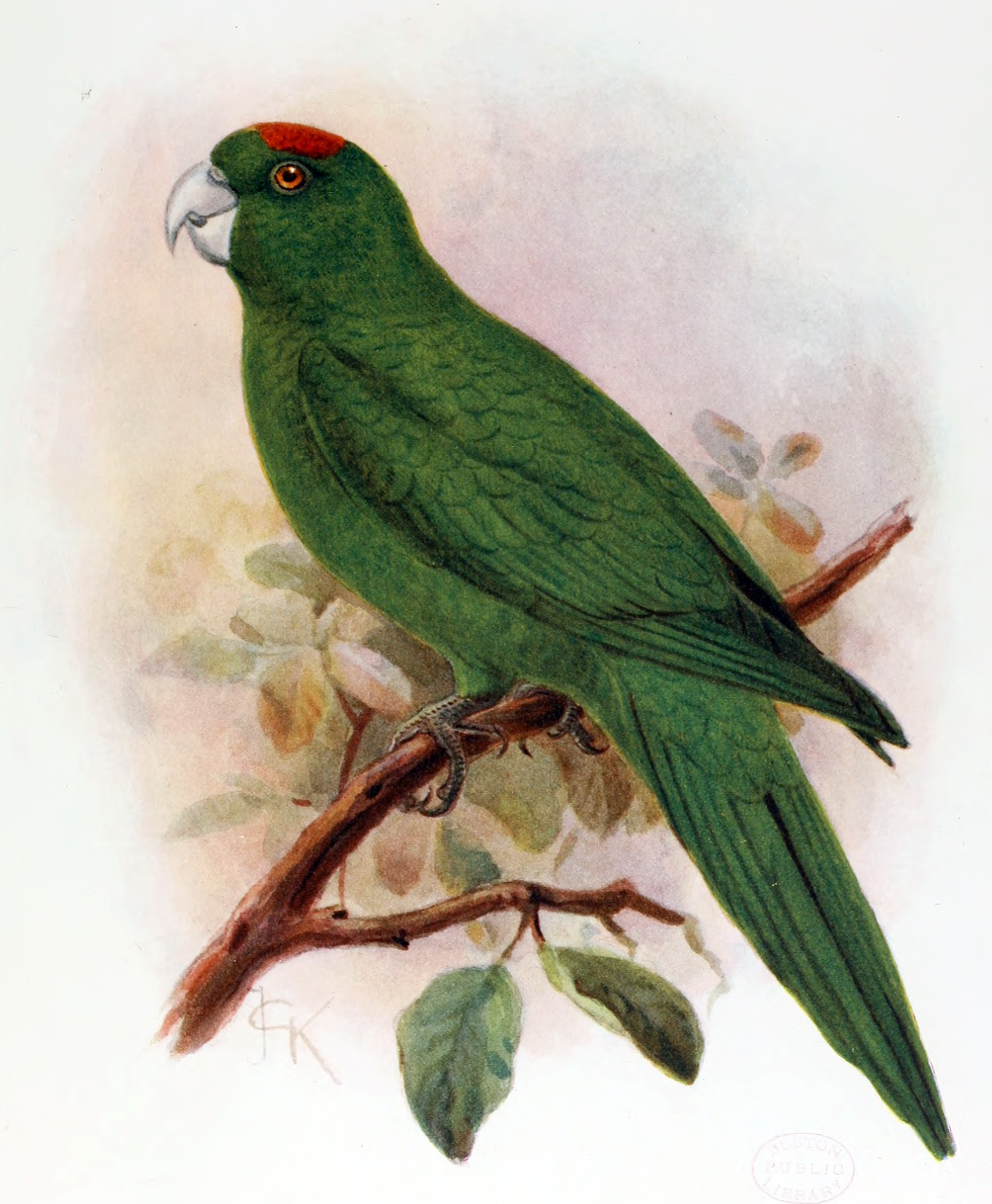 The Guadeloupe Parakeet (Aratinga labati) might have been a species of parrot that was endemic to Guadeloupe. They were called Conurus labati. There are no specimens or remains of the extinct parrots. Their taxonomy may never be fully elucidated, and so their postulated status as a separate species is hypothetical.